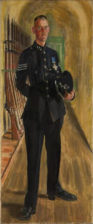 Section Leader Brandon Moss, GC, of Coventry